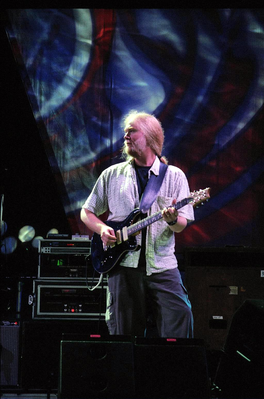 The Dead at the Virginia Beach Amphitheater, Virginia Beach, Virginia on June 17, 2003